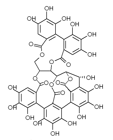 Chemical structure of castalagin